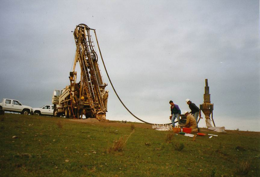 Mobile, truck-mounted drill-rig. The crushed rock-samples ("chips") are examined and bagged at the "Cyclone" (to the right). Photo taken by User:Geoz. Uruguay 1999.)